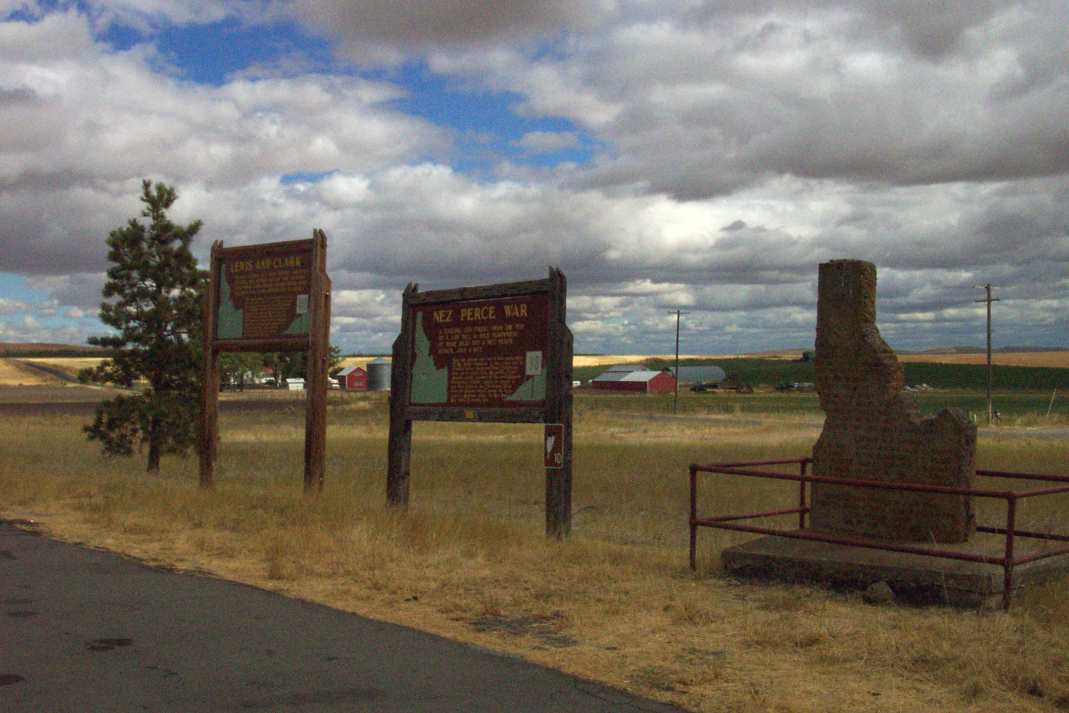 In the immediate aftermath of the battle at White Bird Canyon, the Nez Perce crossed the Salmon River twice and reappeared on the Camas Prairie. As they crossed the prairie, they fought with the U.S. Army and volunteers near Cottonwood, ID. From July 3rd to July 5th of 1877, skrimishes took place between the U.S. Army and the Nez Perce.